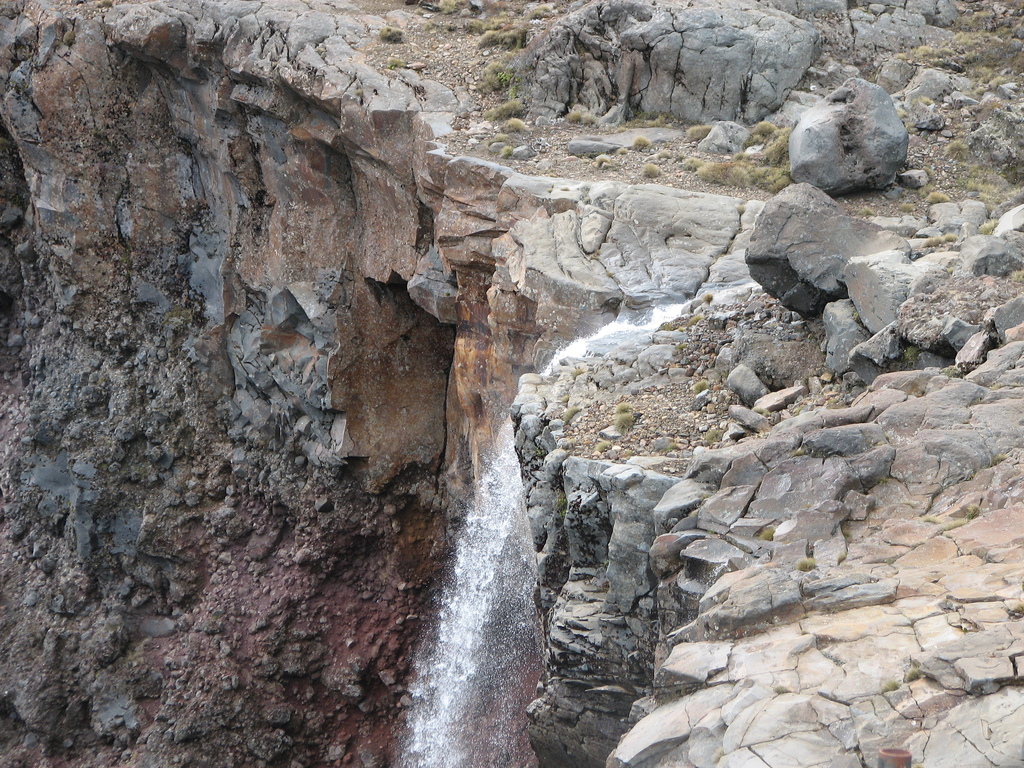 Desolate Falls. Halfway up Mount Ruapehu, New Zealand